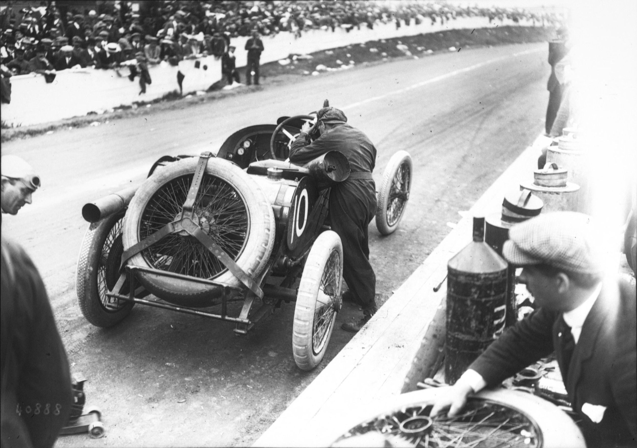 Jean Chassagne at the 1914 French Grand Prix